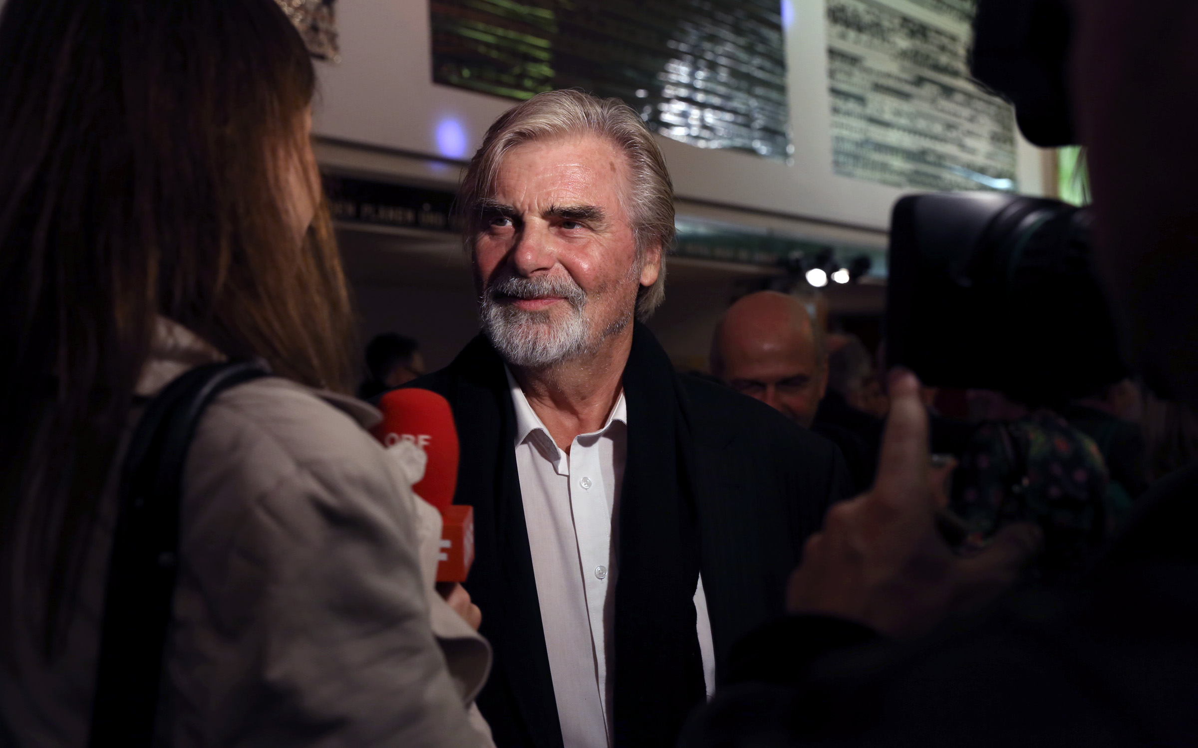 Peter Simonischek, opening night of Vienna International Film Festival 2013 (Gartenbaukino, Vienna, Austria).